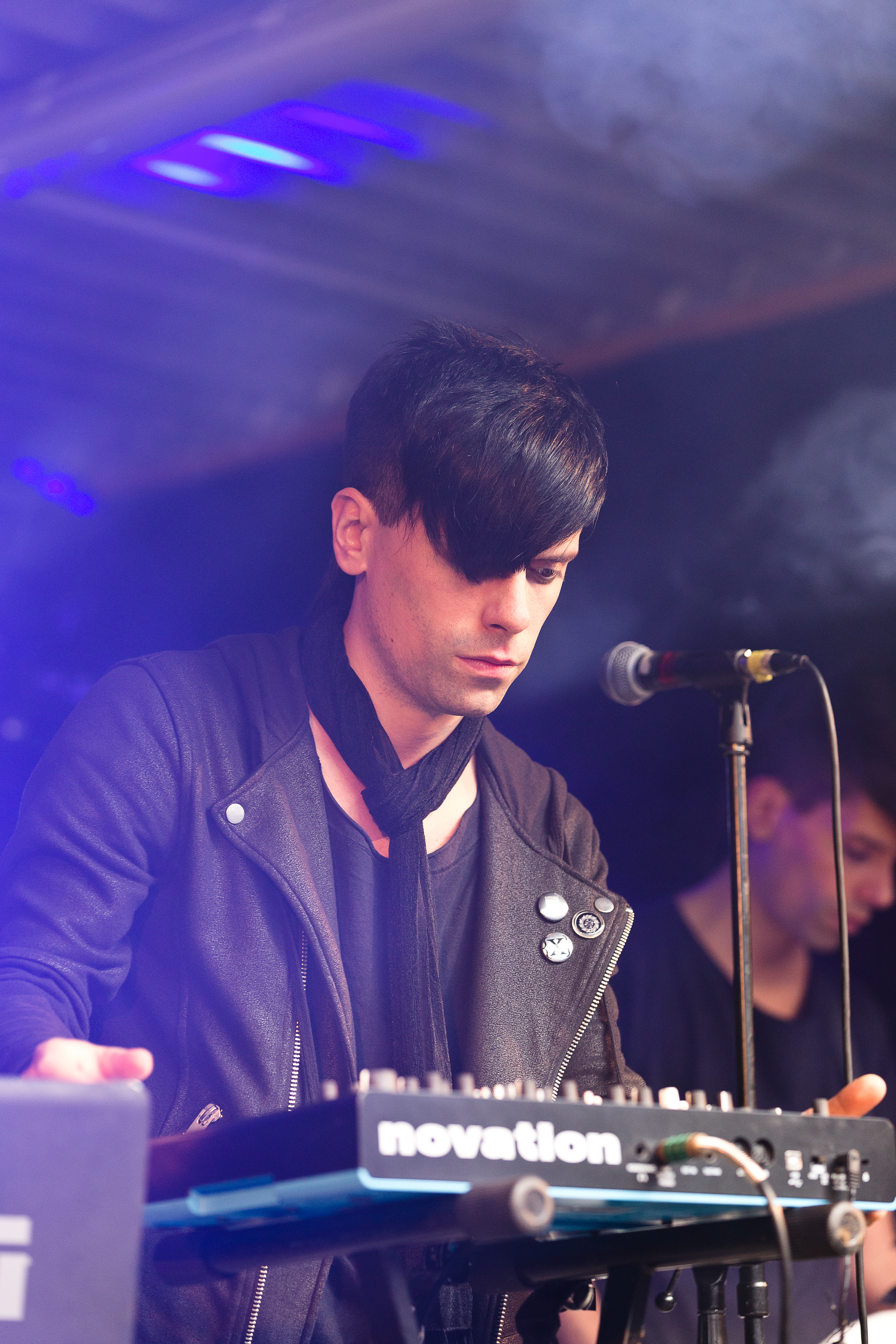 The Italian cold wave band Ash Code at the Nocturnal Culture Night 10 2015 in Deutzen/Germany.